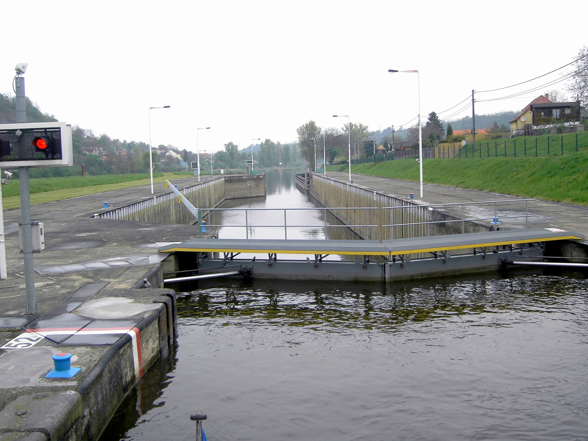 Dolánky lock at Moldau river in Czech republic. The small lock is filled, the large lock is empty.